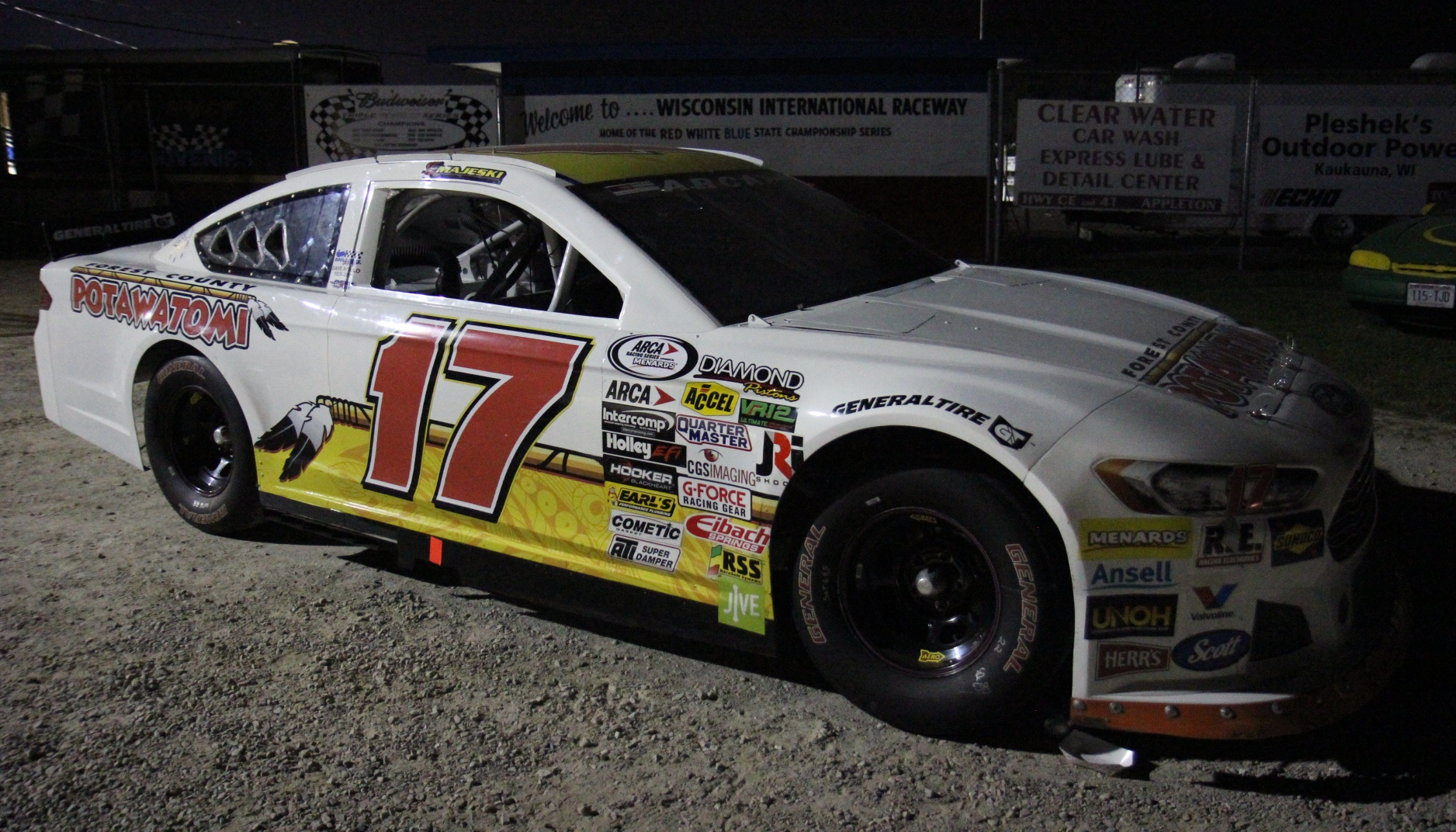 The No. 17 Roulo Brothers Racing 2016 ARCA car used by Ty Majeski on display at Wisconsin International Raceway.